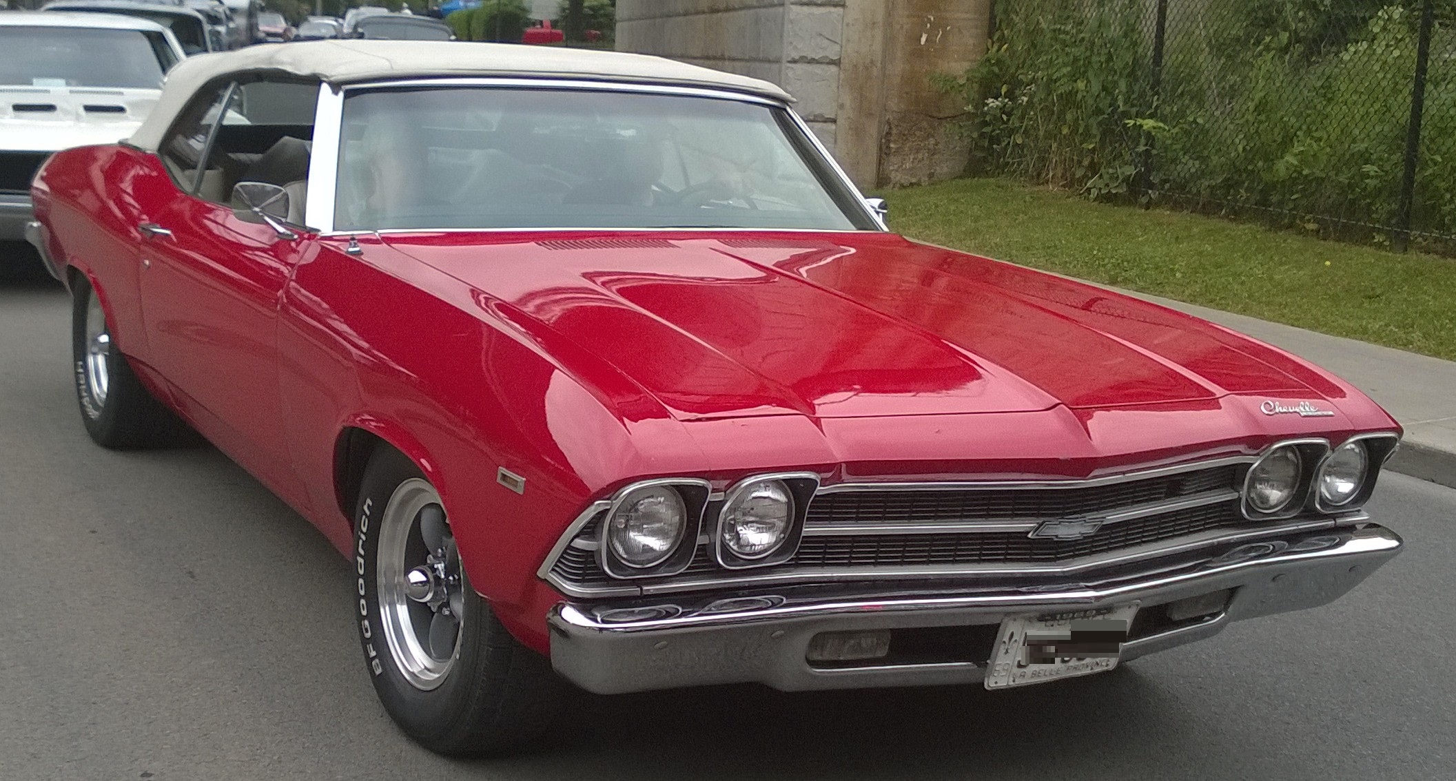 1969 Chevrolet Chevelle photographed in Ste. Anne De Bellevue , Quebec, Canada at Cruisin' At The Boardwalk 2017.